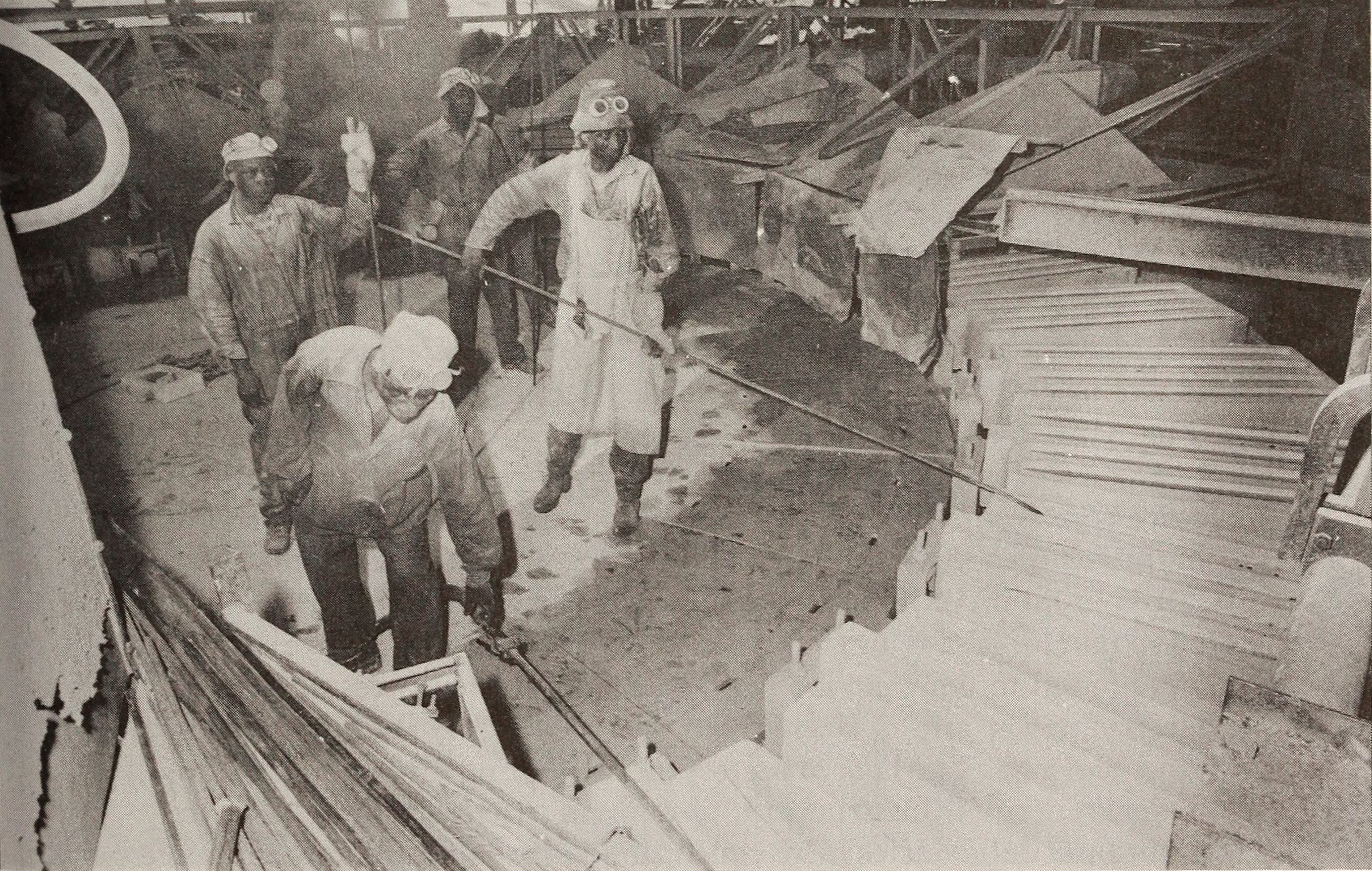 Flow racks for the electrolyzed copper, Gecamines Shituru refinery near Likasi